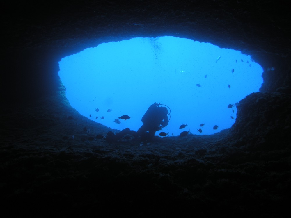 The "Belvedere" upside south hole in Nereo Cave - Alghero Sardinia